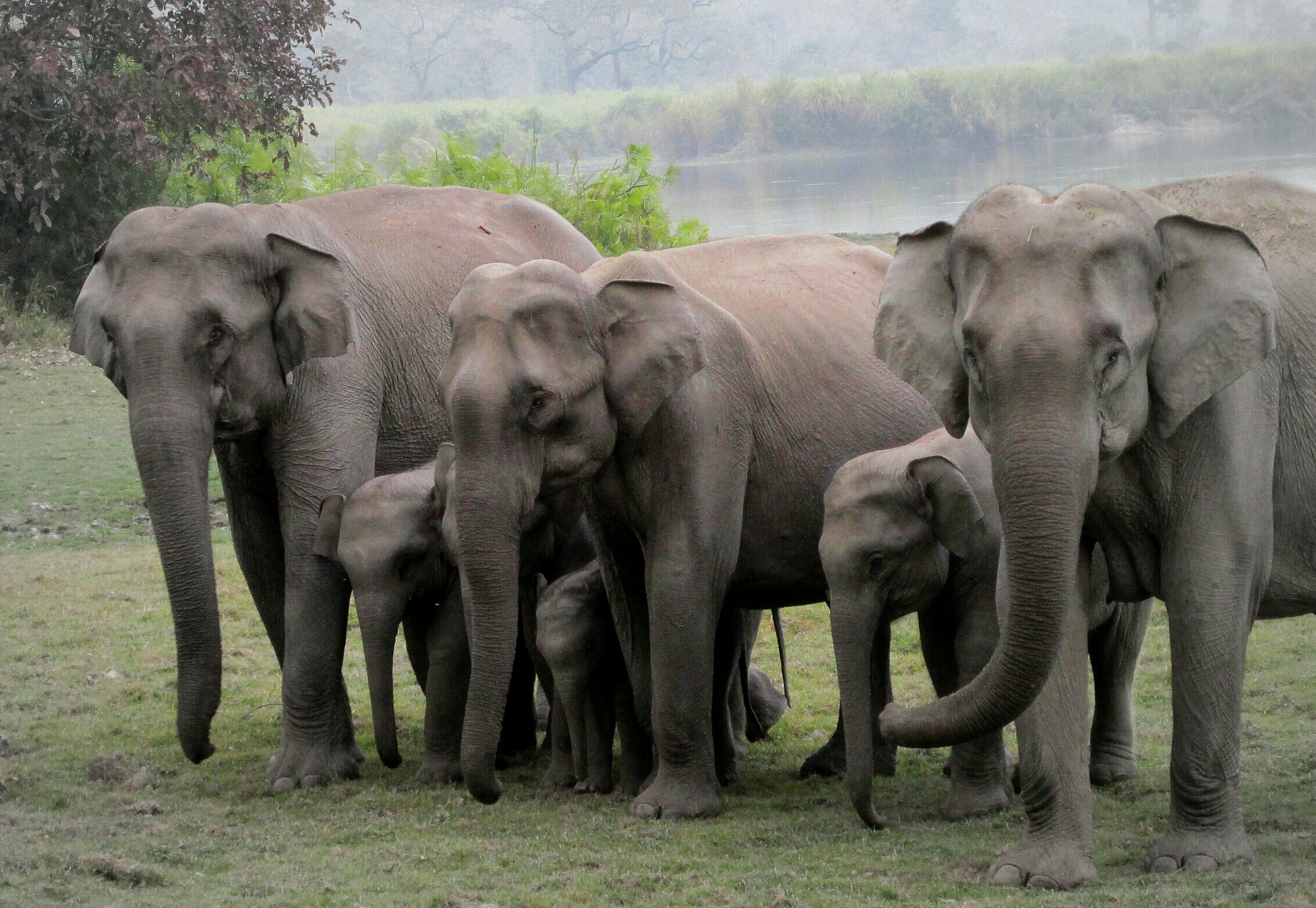 In kaziranga national park